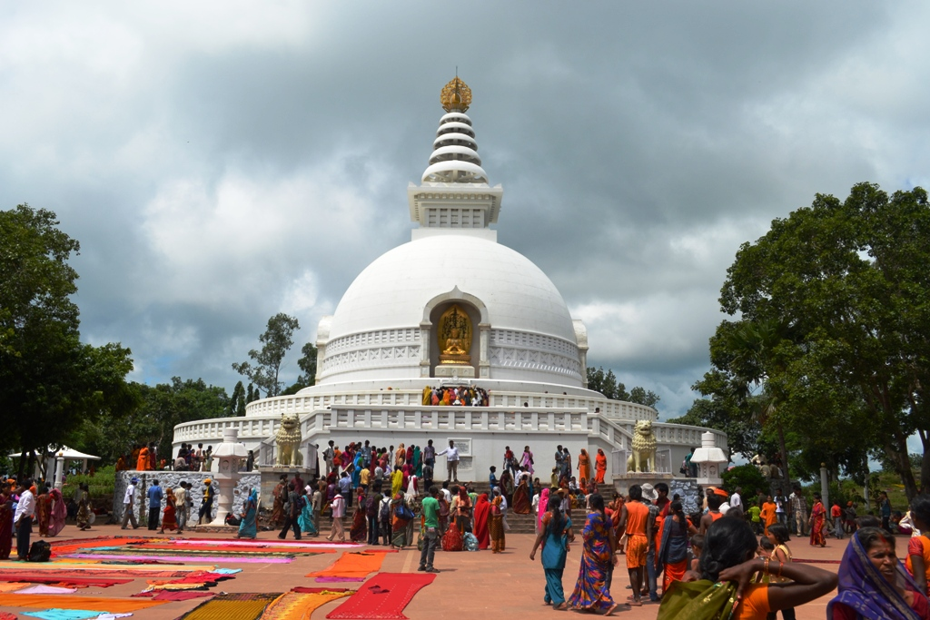 It is in Rajgir, Bihar, India.